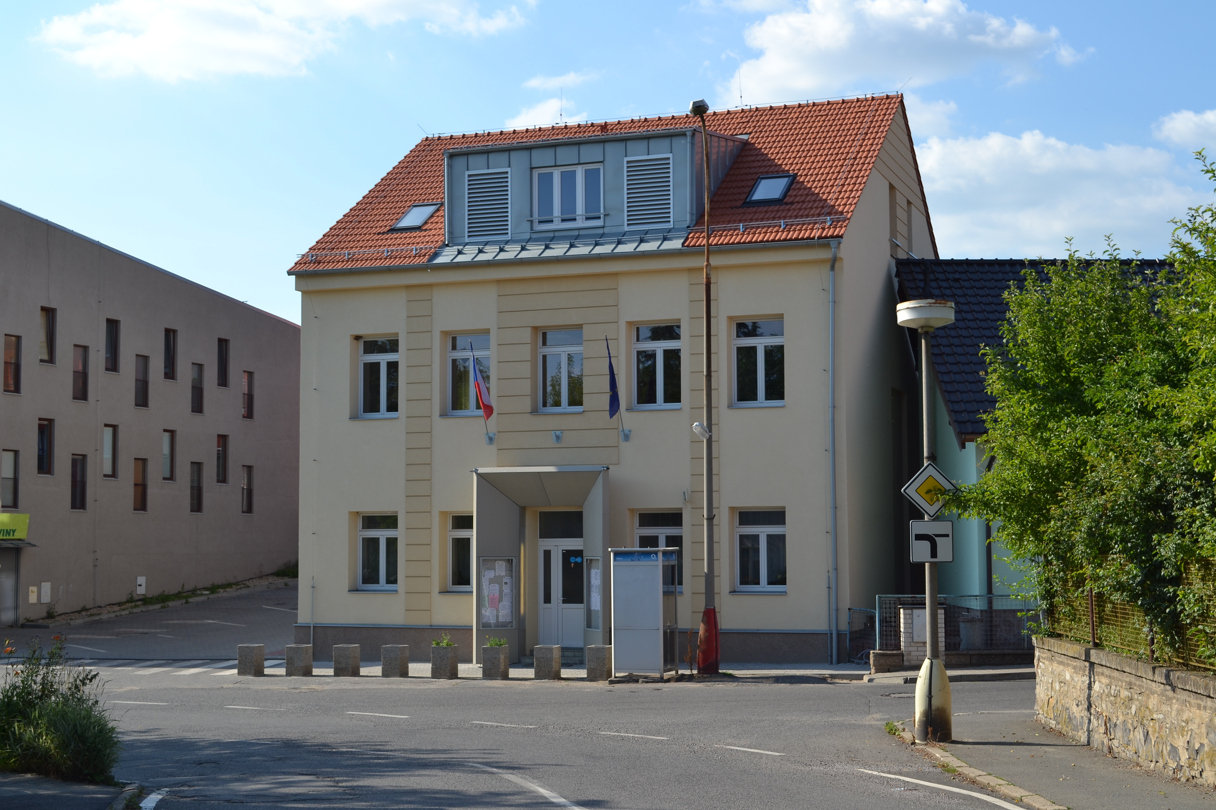 Municipal office, Náměstí 5. května 19, Jinočany, Central Bohemian region, Czech Republic.